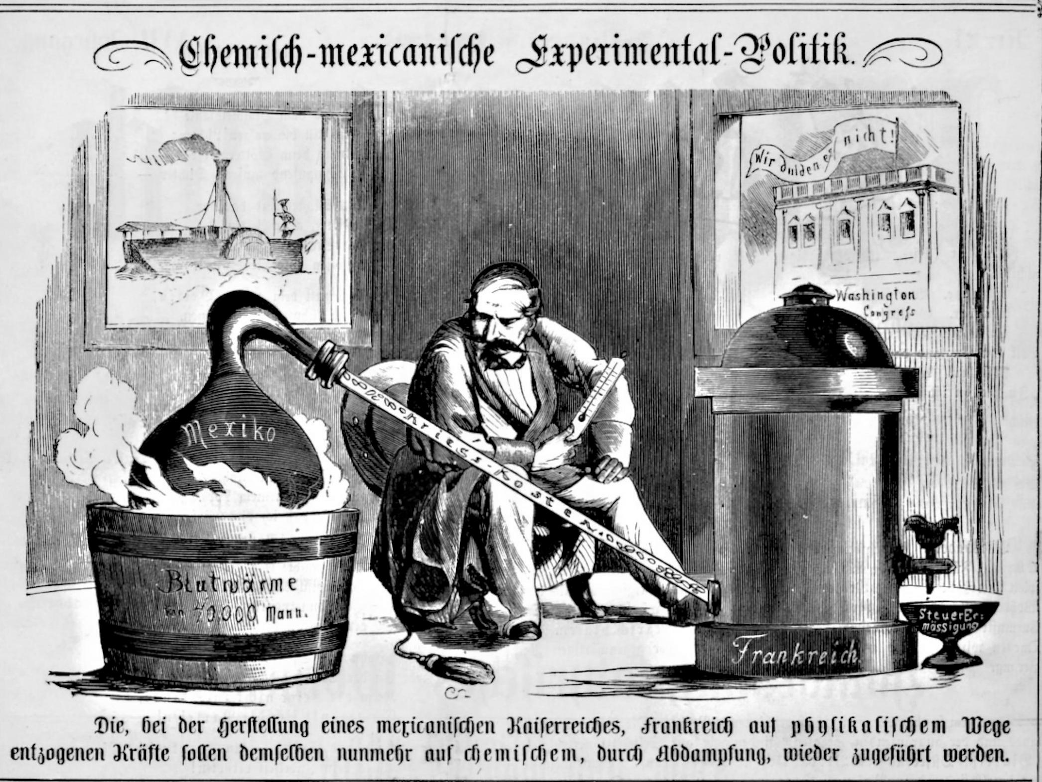 Karikatur, Kladderadatsch